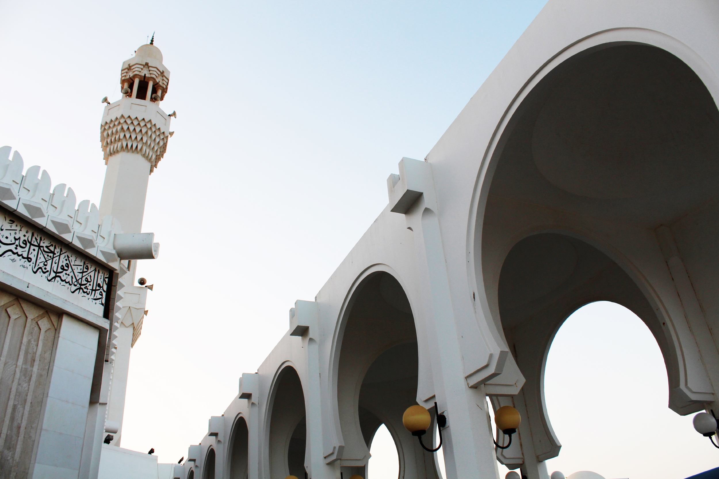 Minaret and arcade of al-Rahmah Mosque. Jeddah, Saudi Arabia.